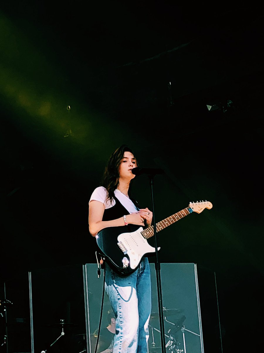 Photograph of musical artist Clairo performing in Boston on May 25, 2019. Released into public domain by photographer (kkatieec) - "@YanceyMc 3h3 hours ago Hello, I'm a wikipedian, and we need a picture of Clairo for her wikipedia page. Please reply if you're willing to release one of these photos to the public domain so it can used (you will be credited as the photographer). Thanks!" "katie @kkatieec Replying to @YanceyMc @clairo hi, you can use my pic"